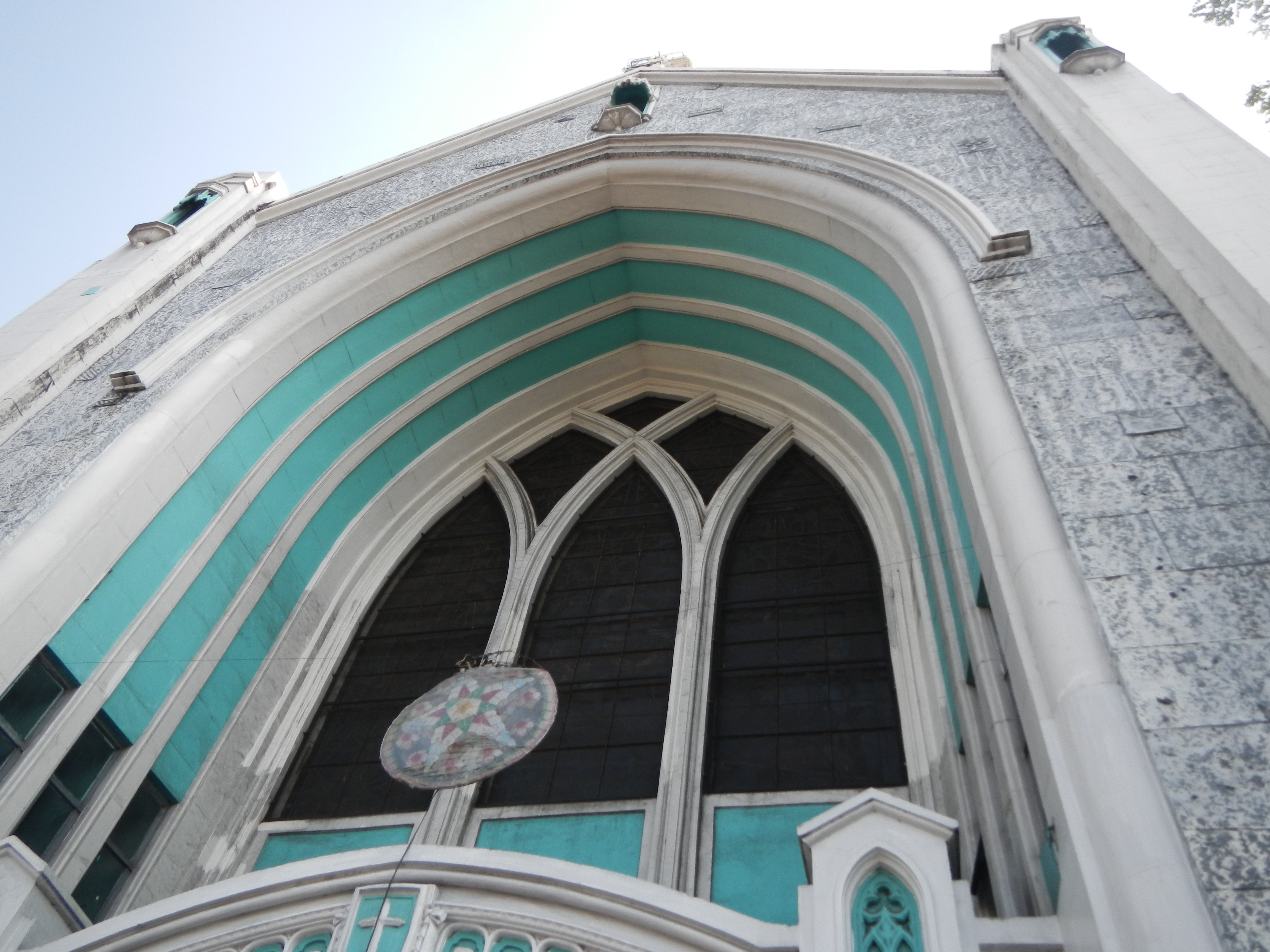 Upload Wizard photos -- (General description, 3-dimension angle by angle photography of this town, City, church & landmarks) -- Note - these buildings are practically beside each other or adjacent neighbors, hence, this Wizard description, thusly - a) Manila Science High School[1] Taft Avenue[2] cor. Padre Faura Street [3] Ermita[4] City of Manila, Metro Manila, Philippines b) Cathedral of Praise[5] formerly Manila Bethel Temple is a Pentecostal Christian Church located in Manila, Philippines operates a Main Campus on 350 Taft Avenue - c) National Bureau of Investigation (Philippines) d) The Pearl Manila, a Hotel, beside this Cathedral e) Central United Methodist Church (Manila) [7] Central UMC is located in 694 T.M. Kalaw Avenue corner Taft Avenue, Ermita, Manila, in front of the office of the Department of Tourism[8]